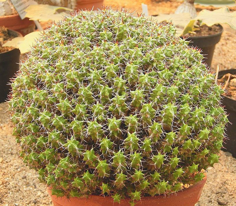 Euphorbia mitriformis BG Bochum, Germany